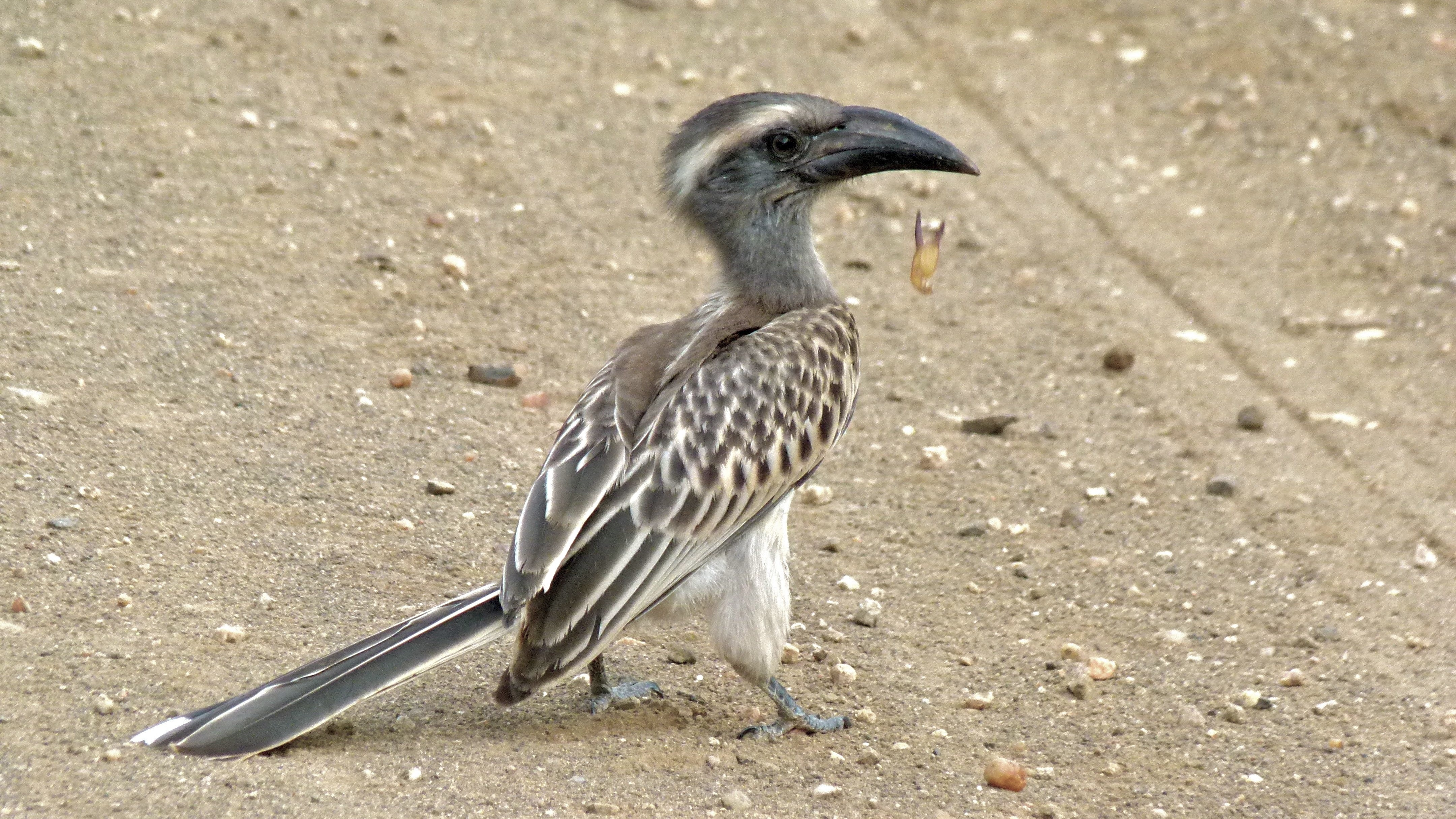 S62 North of Letaba, Kruger NP, SOUTH AFRICA